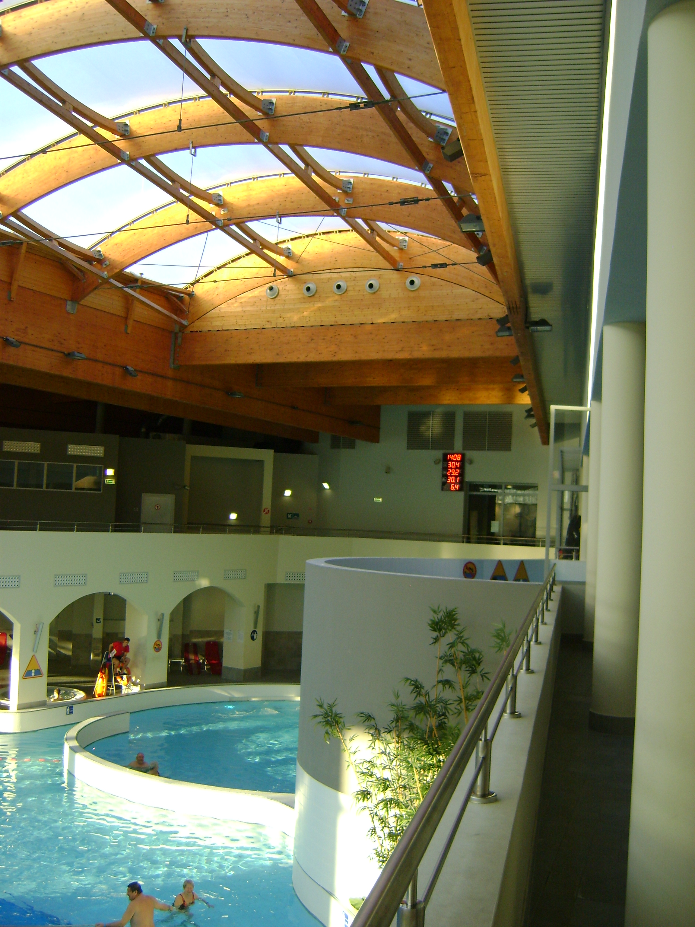 Aquadrom Ruda